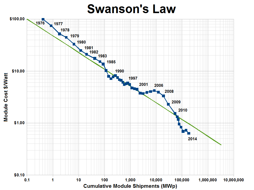 The green line shows Swanson's law, a 20% decrease in price for every doubling of cumulative shipped photovoltaics. The blue line shows actual world wide module shipments vs. average module price, from 1976 to 2014. Prices are in 2011 dollars. Data is from Figure 1, ITRPV Edition 2015. compare to current spot-market prices here.